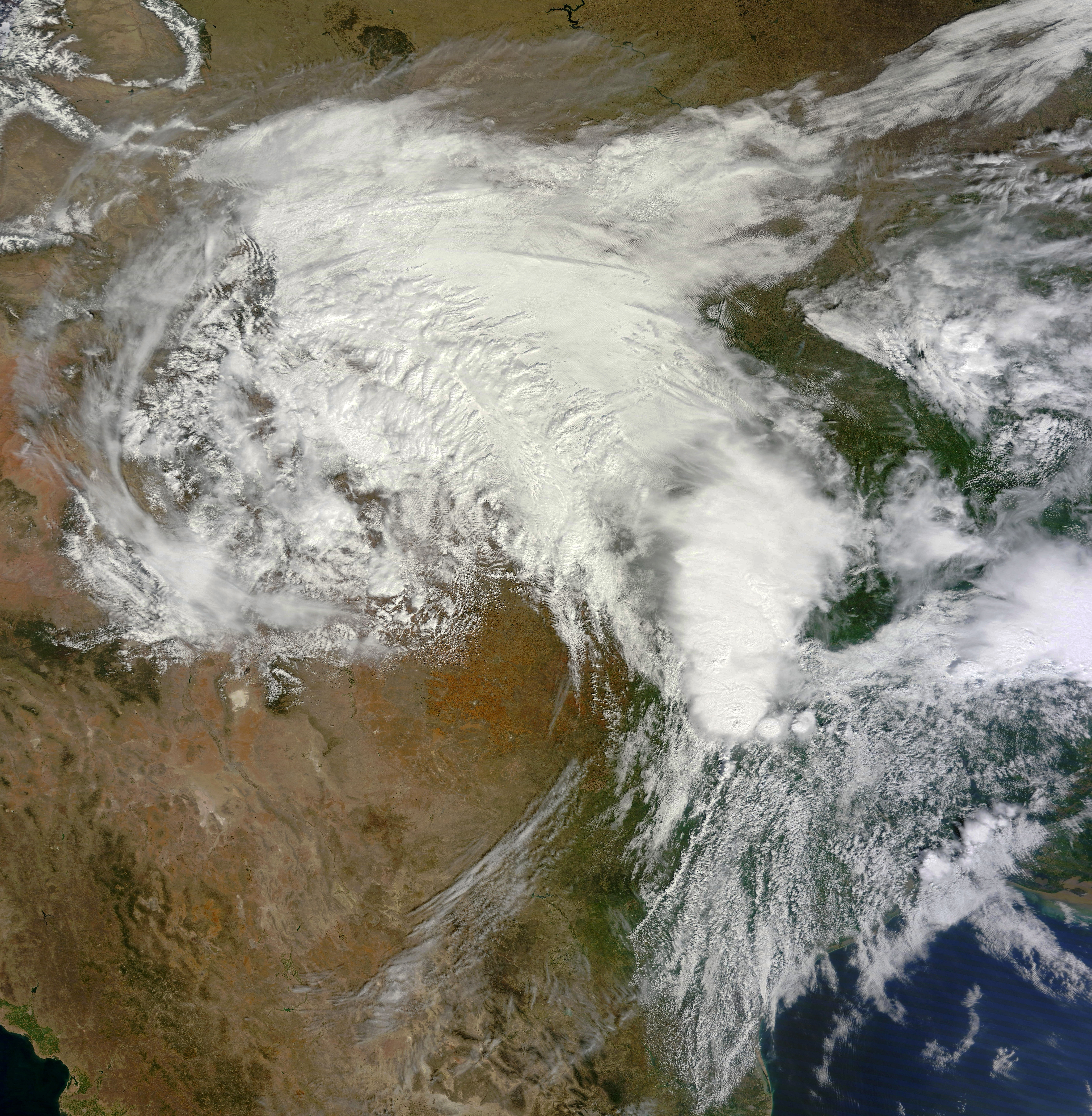 The Moderate Resolution Imaging Spectroradiometer (MODIS) on NASA’s Terra satellite captured this natural-color, High Definition image of an Low pressure area over Western USA, with a frontal area developing on the east of the system, developing into Supercells with tornadoes on April 3, 2012.